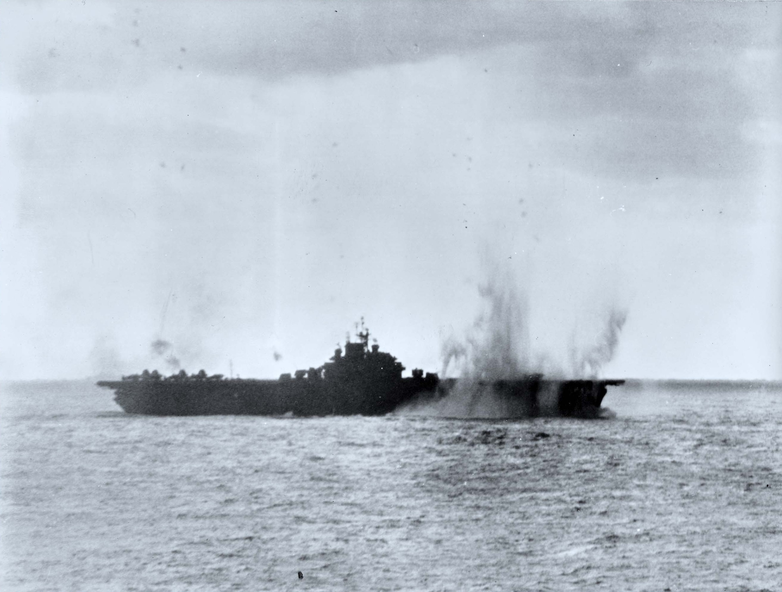 The U.S. aircraft carrier USS Essex (CV-9) under attack by Japanese aircraft off Japan, on 19 March 1945. A bomb just exploded on the starboard side of Essex, whereas the plane that dropped it crashed on the port side.